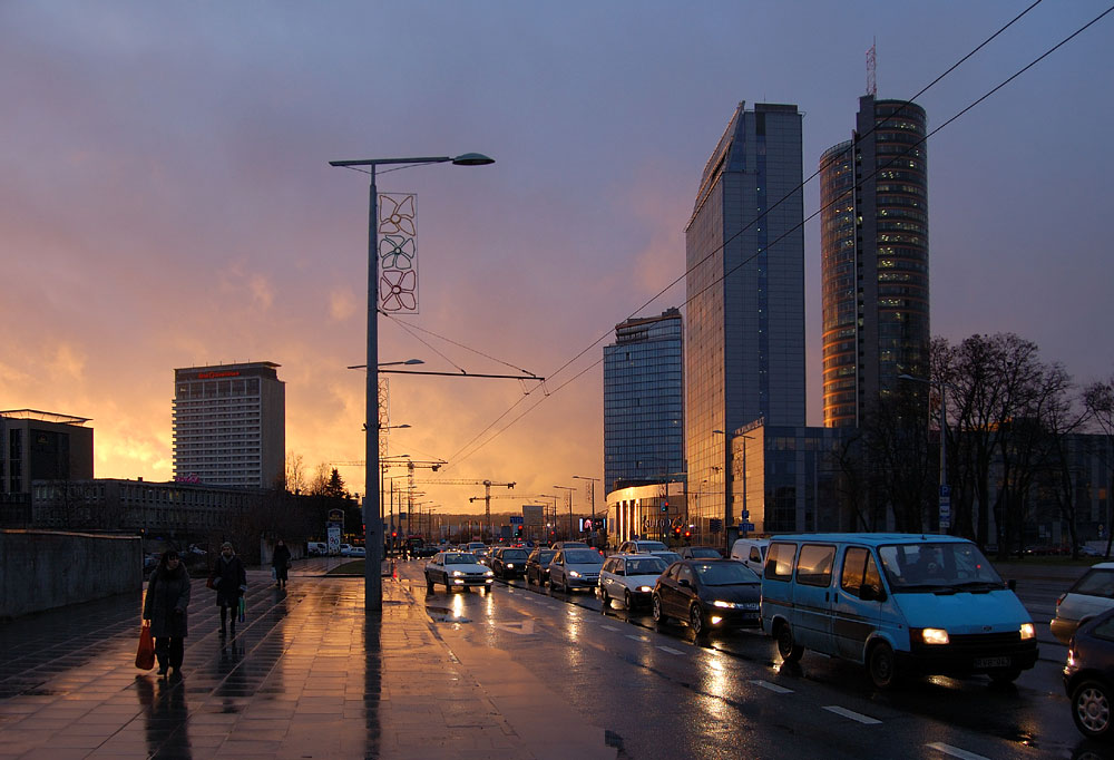 Constitution Avenue in Vilnius